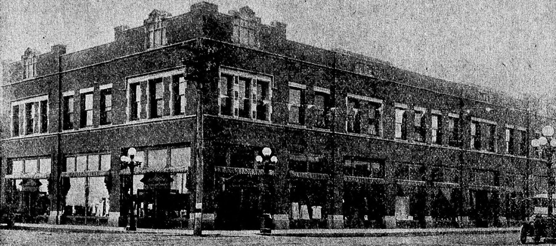 1915 black and white photograph published in the Warren Sheaf newspaper of the K. J. Taralseth Company Building ("Warren's Great Department Store") in Warren, Marshall County, Minnesota, United States